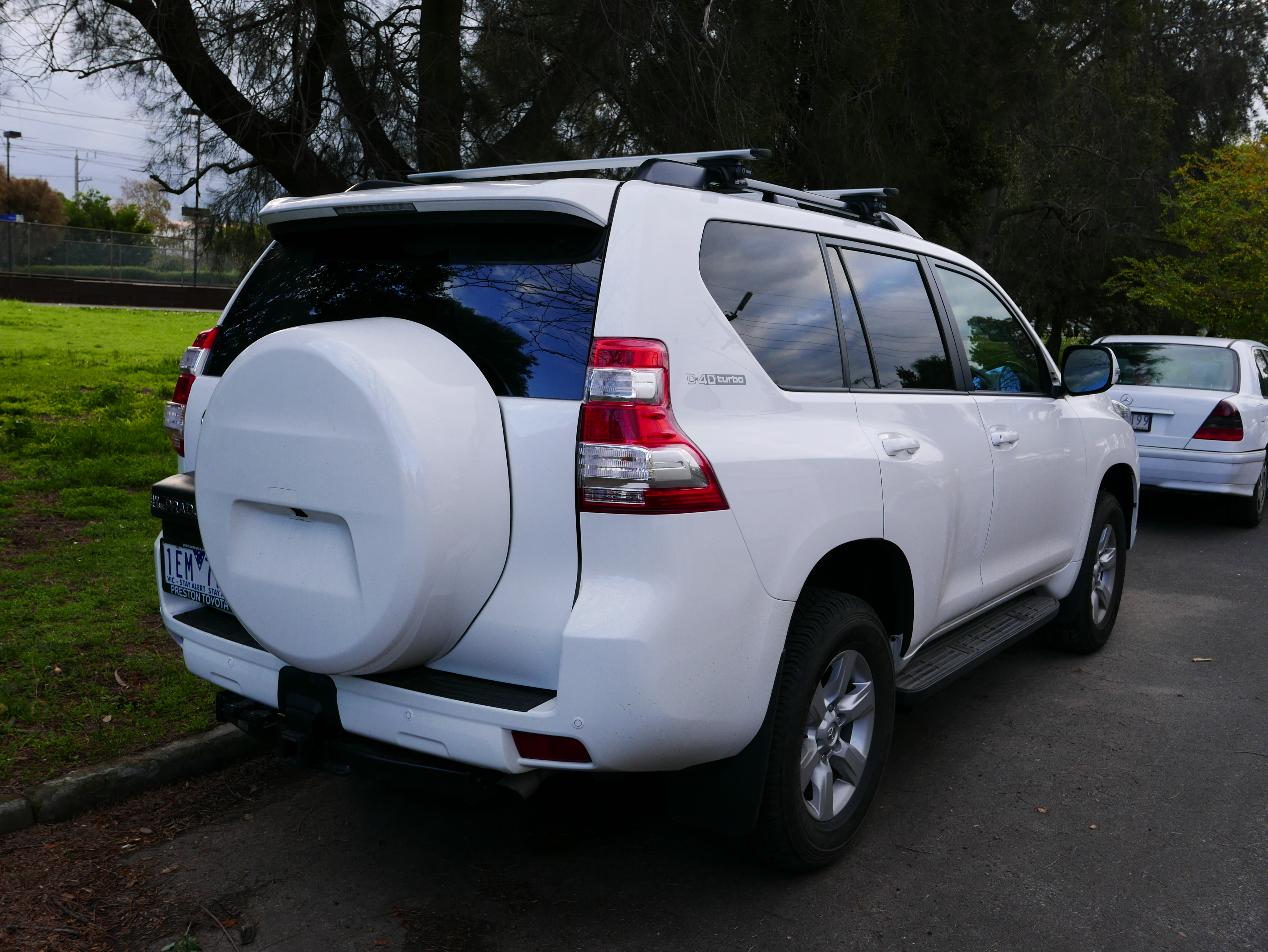 2015 Toyota Land Cruiser Prado (KDJ150R MY14) GXL 5-door wagon. Photographed in Northcote, Victoria, Australia. Vehicle registration enquiry resultsJurisdictionVictoriaRegistration1EM7PBChassis codeJTEBH3FJ30K166435Engine code1KD2490967Compliance date2015-04Year of manufacture2015